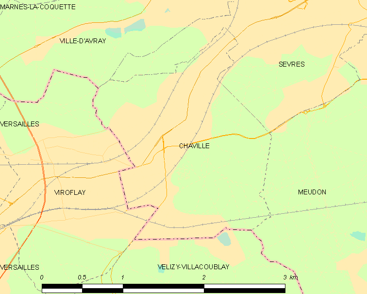 Map of French municipality Chaville